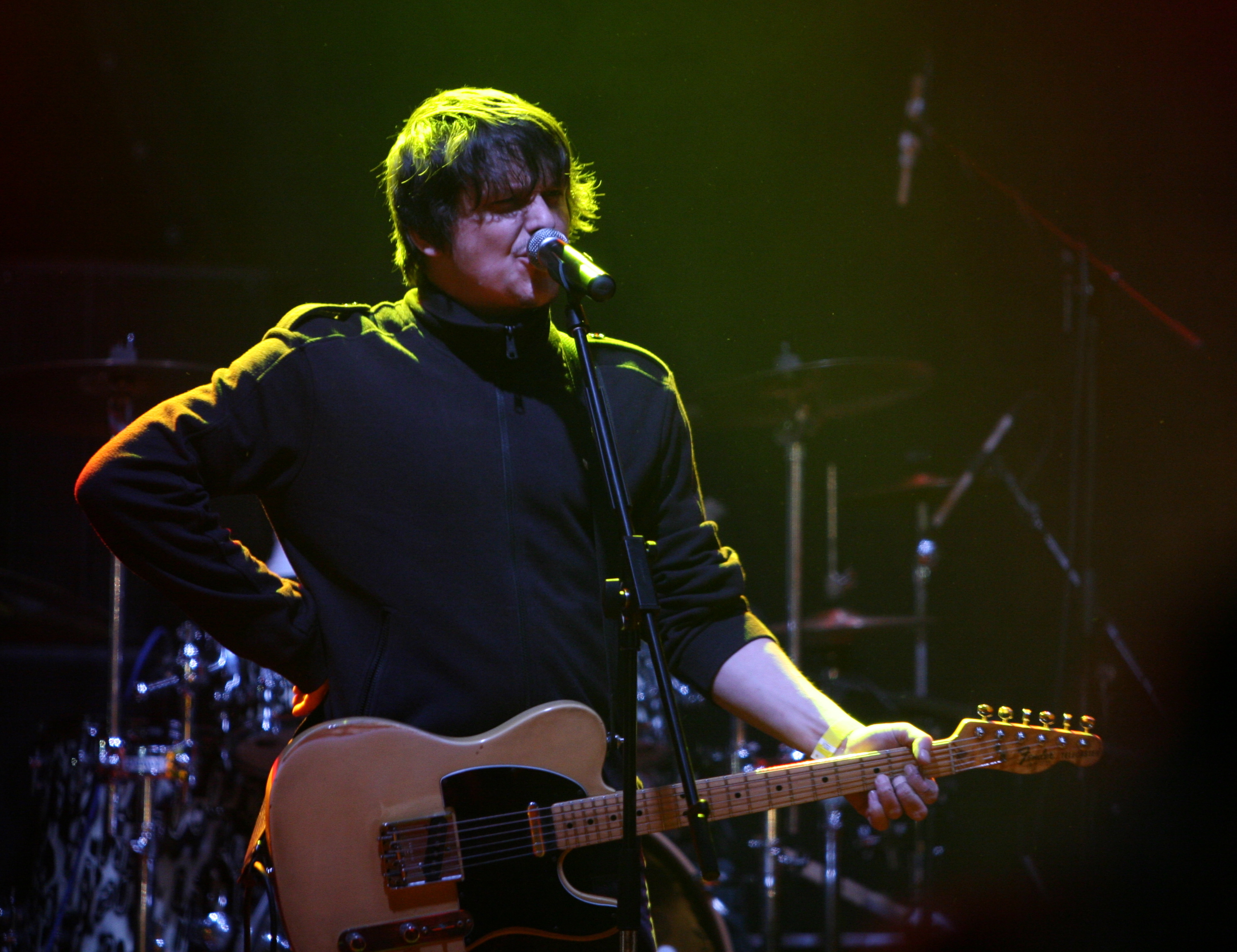 Michal Malátný on Chinaski concert, Majáles in Prague